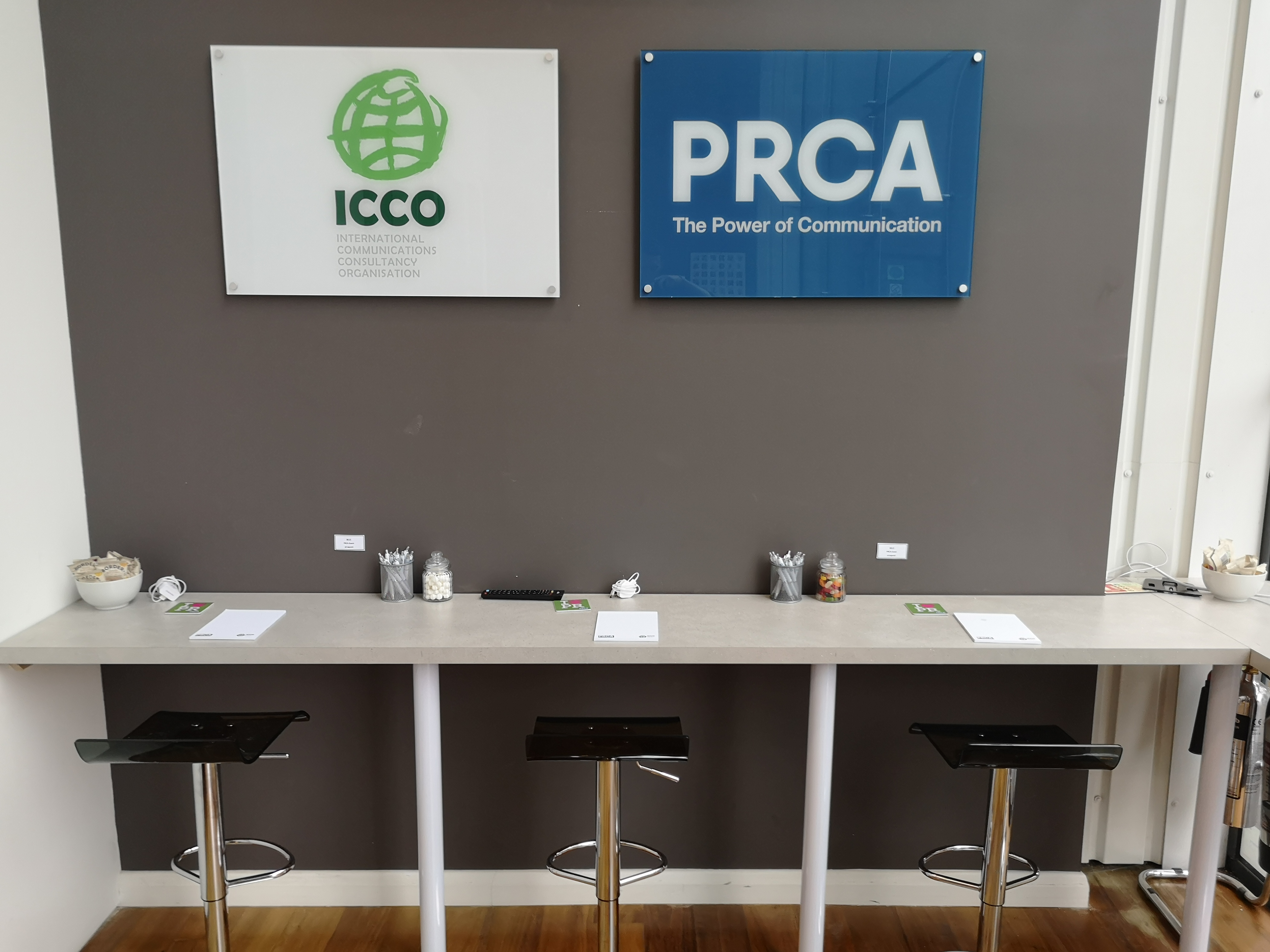 PRCA Offce